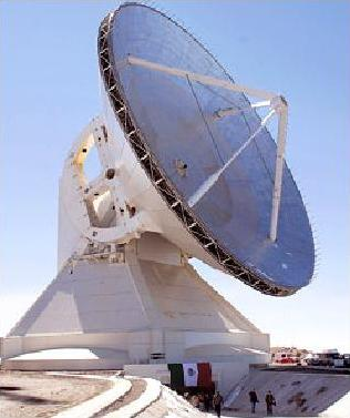 An image of the large millimeter telescope in Mexico